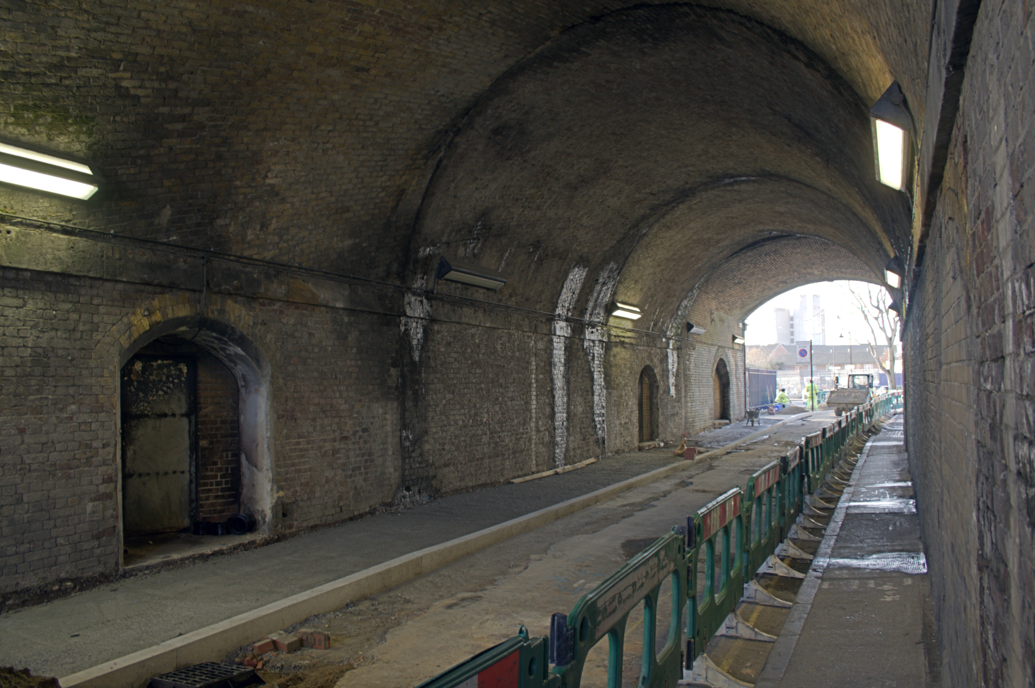 Railway arch at Marine Street (formerly Rouel Road), just north of Spa Road. The 1842-1867 station's booking office was accessed through the first door on the left and the platform through the second door on the left.